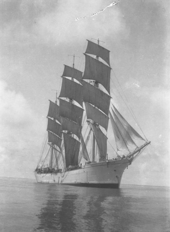 This photo is part of the Australian National Maritime Museum’s Samuel J. Hood Studio collection. Sam Hood (1872-1953) was a Sydney photographer with a passion for ships. His 60-year career spanned the romantic age of sail and two world wars. The photos in the collection were taken mainly in Sydney and Newcastle during the first half of the 20th century. If reproduced or distributed, this image should be clearly attributed to the collection of the Australian National Maritime Museum; and not be used for any commercial or for-profit purposes without the permission of the museum. For more information see our The ANMM undertakes research and accepts public comments that enhance the information we hold about images in our collection. This record has been updated accordingly. Photographer: Samuel J. Hood Studio Collection Object no. 00036984